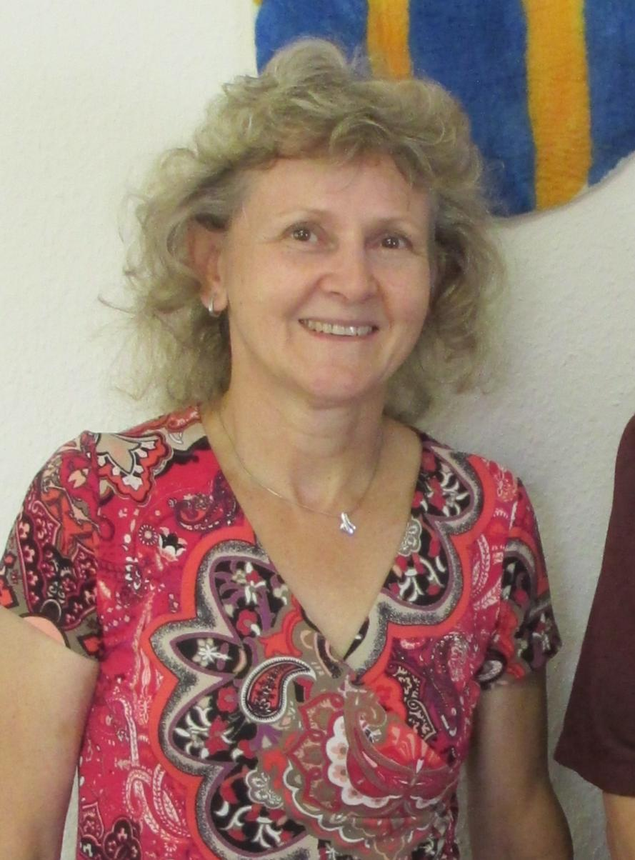 Mayor Gisela PallasPlace: City Hall, Demitz-Thumitz, Germany